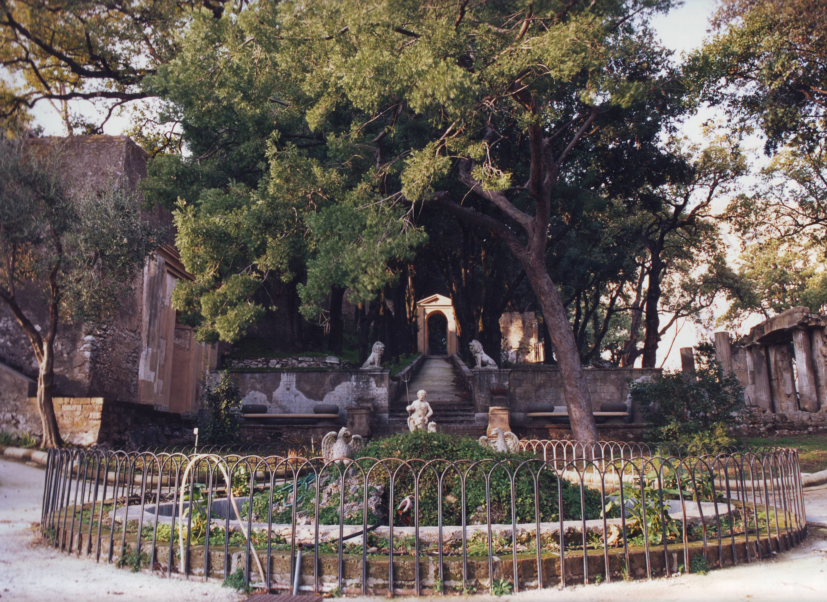 A wonderful view of the garden of Villa Calvanese in Lanzara